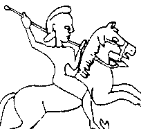 zoom in from seal